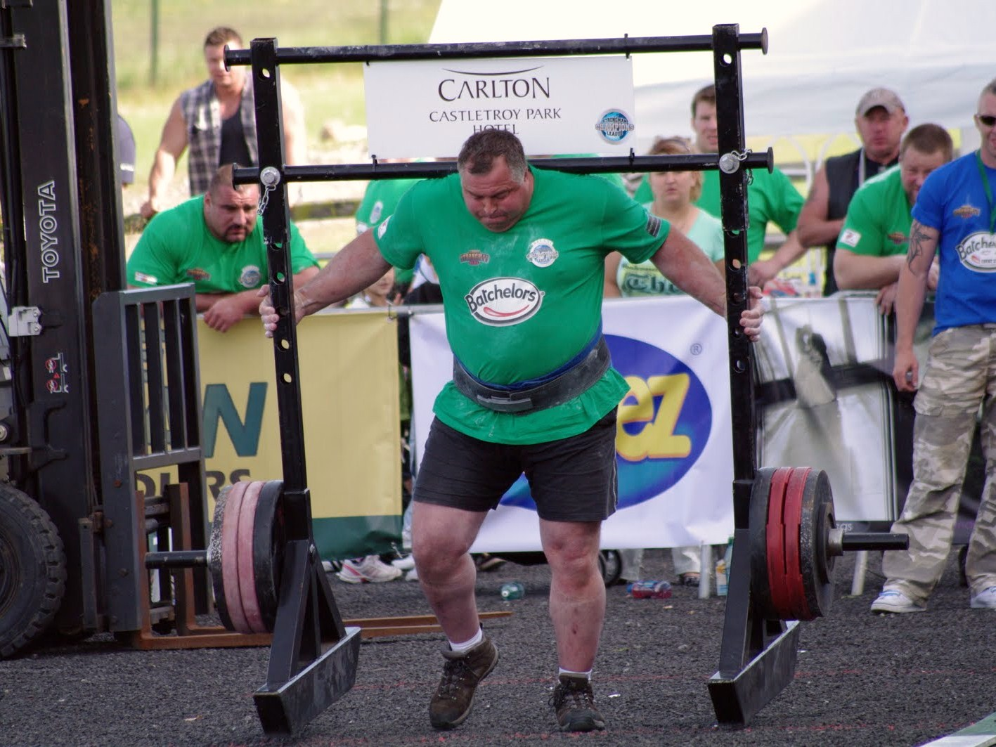 Mark Westaby - a strength athlete from England at the Yoke Walk.